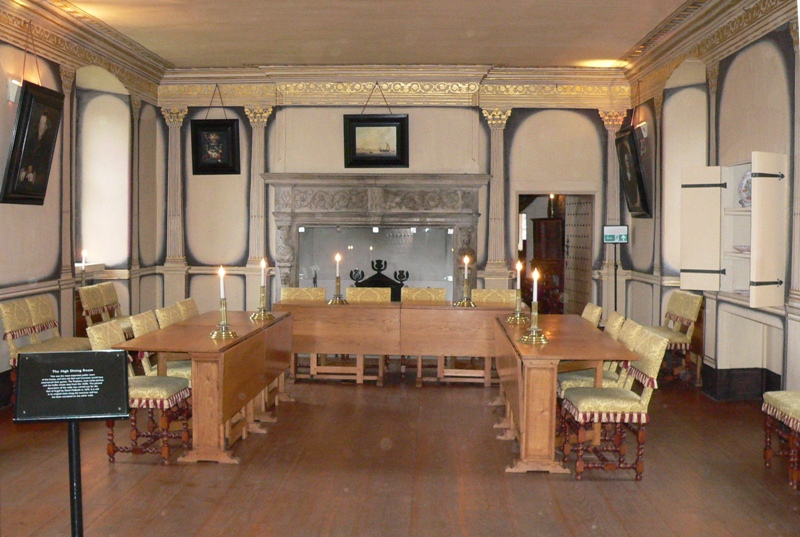 Argyll's Lodging, Stirling, Scotland - High Dining Room